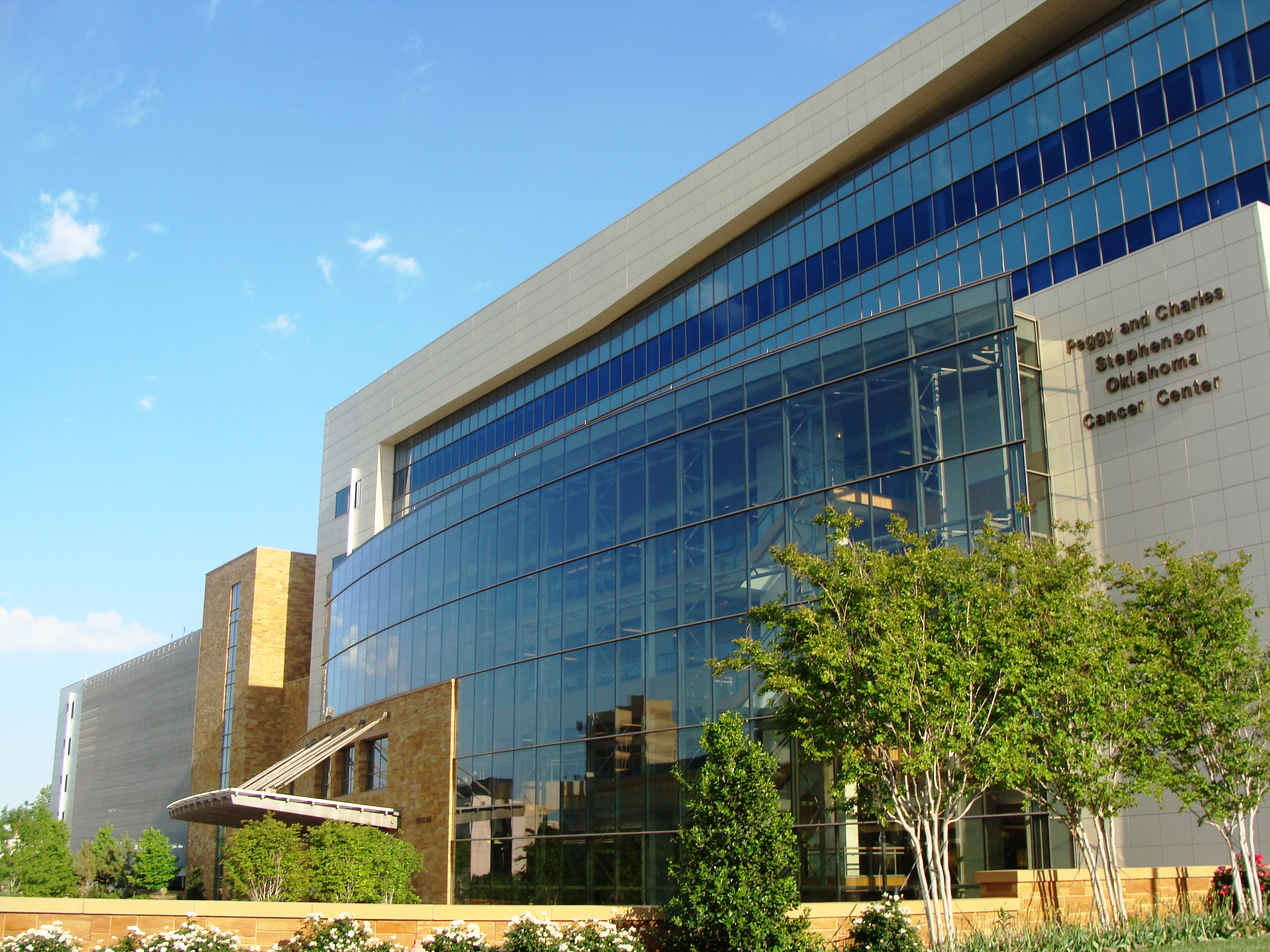 Stephenson Cancer Center, University of Oklahoma Health Science Center, Oklahoma City, OK, USA